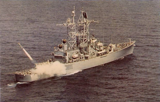 The U.S. Navy guided missile cruiser USS Truxtun (CGN-35) launches a missile, circa in 1976. The missile appears to be a RUR-5 ASROC.